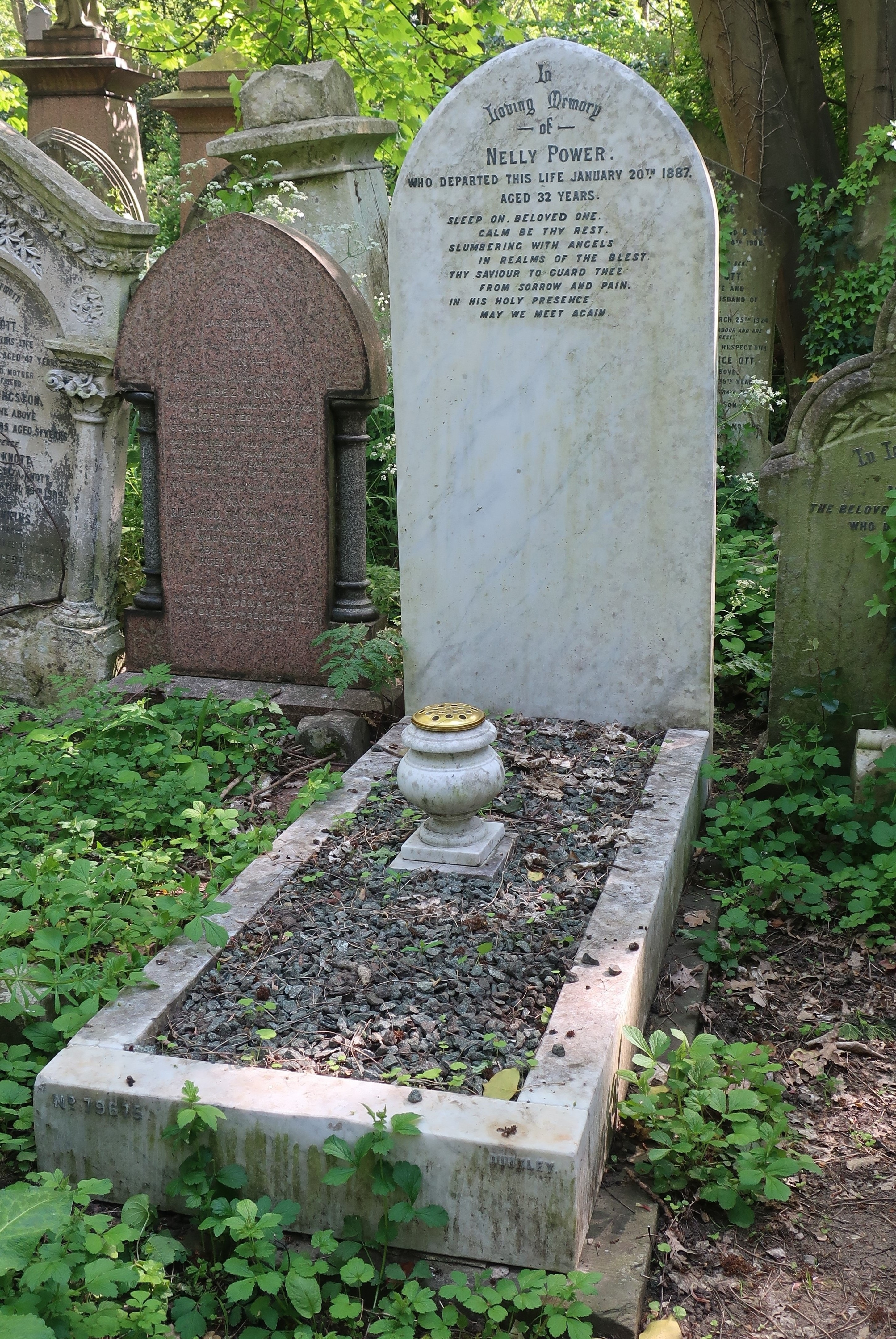 Grave of Nelly Power (1854–1887), music hall star, in Abney Park Cemetery, London.